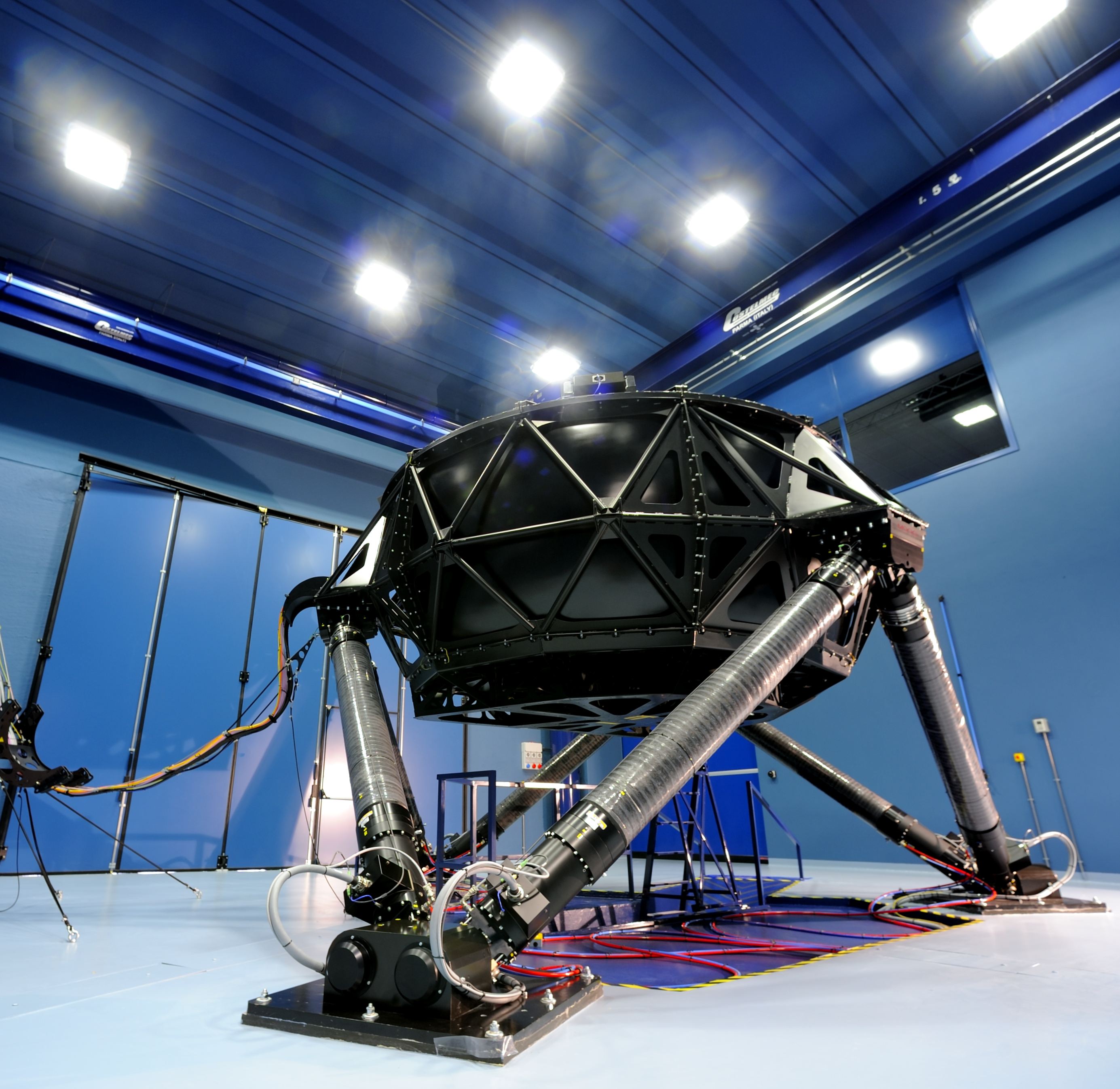 Dallara D3 simulator